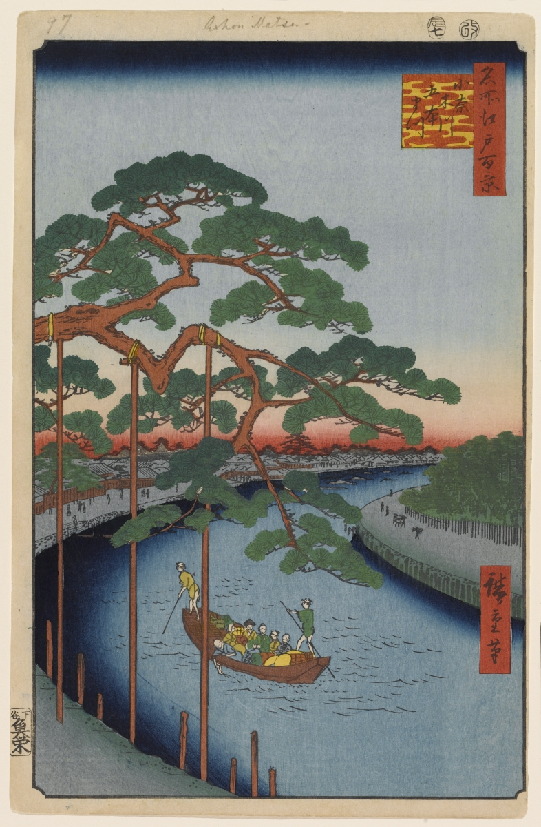 Part of the series One Hundred Famous Views of Edo, no. 097, part 3: Autumn.